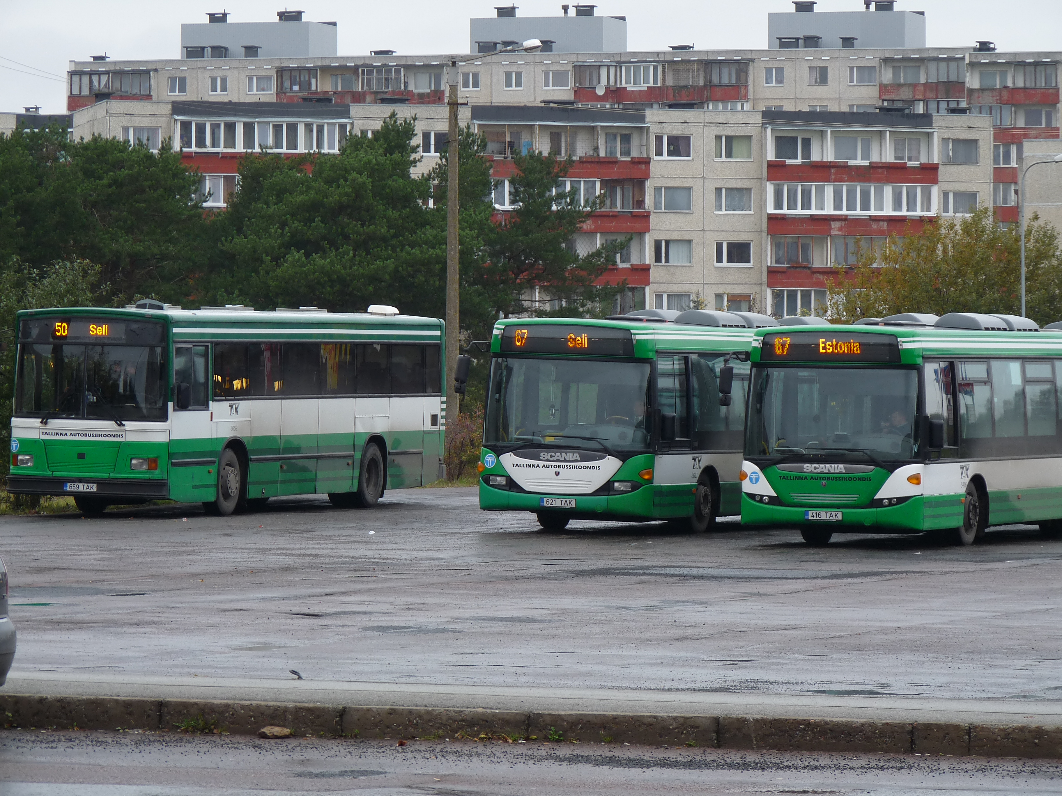 TAK buses in Ümera.